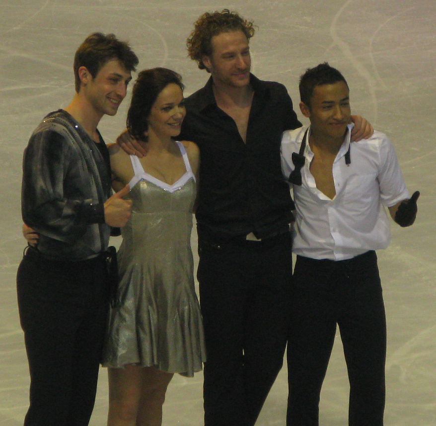 French figure skating team leaders, Brian Joubert, Nathalie Péchalat, Fabian Bourzat and Florent Amodio at the figure skating gala exhibition of 2012 World Figure Skating Championships in Nice.